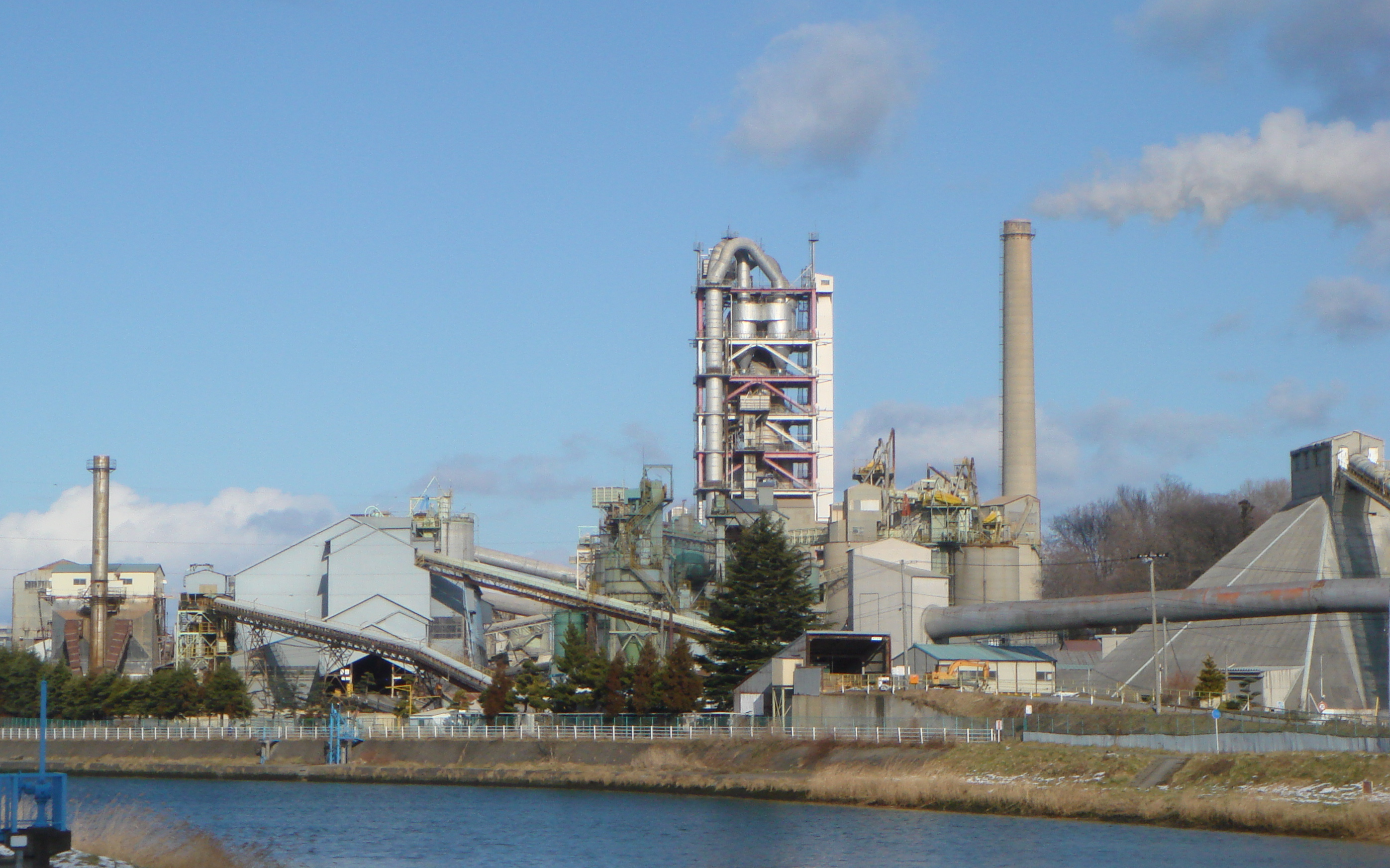 Hachinohe Cement is the cement manufacturer in Hachinohe city, Aomori, Japan.